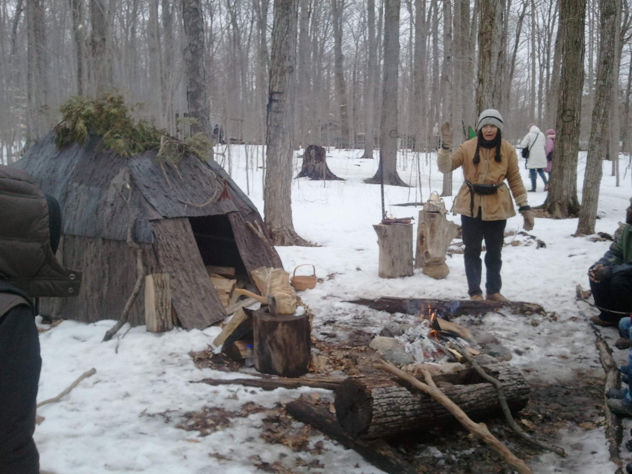 Sugar bush maple syrup demonstration ("Huron station"), Bruce's Mill Conservation Area, Stouffville, Ontario